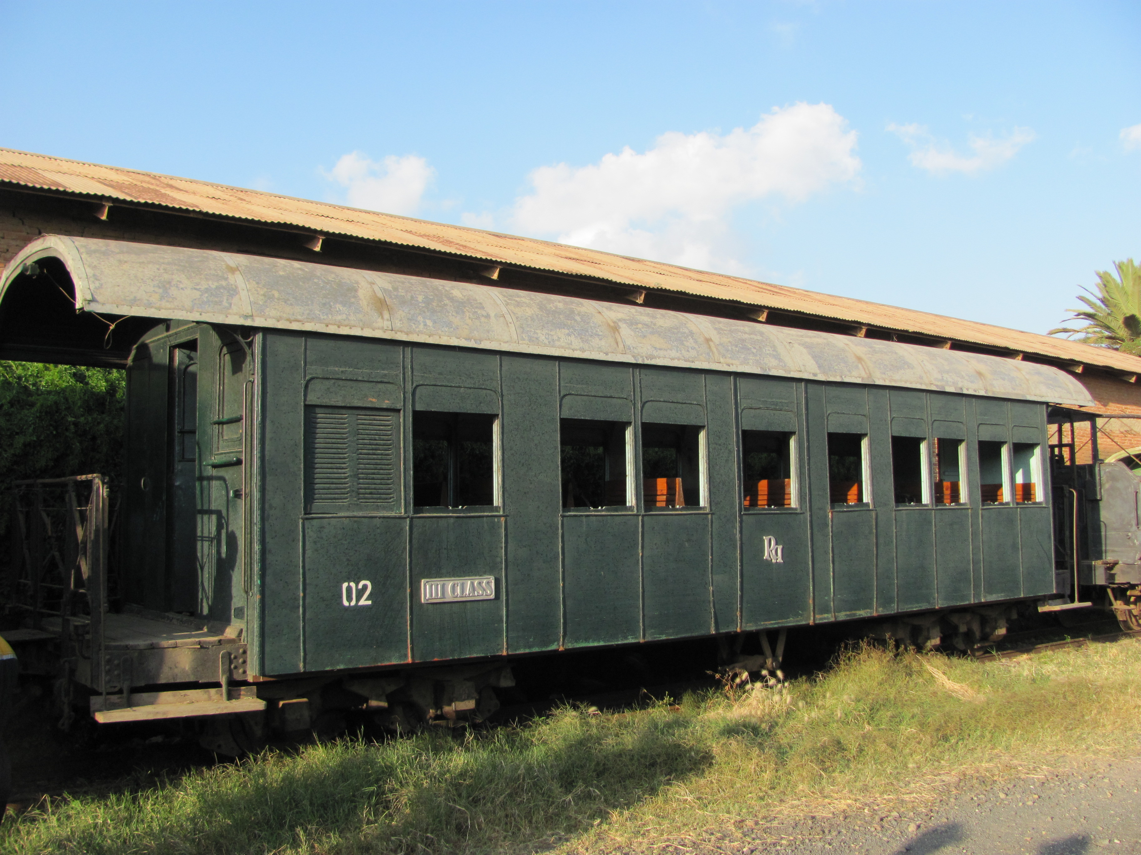 3rd class coach Eritrean Rly